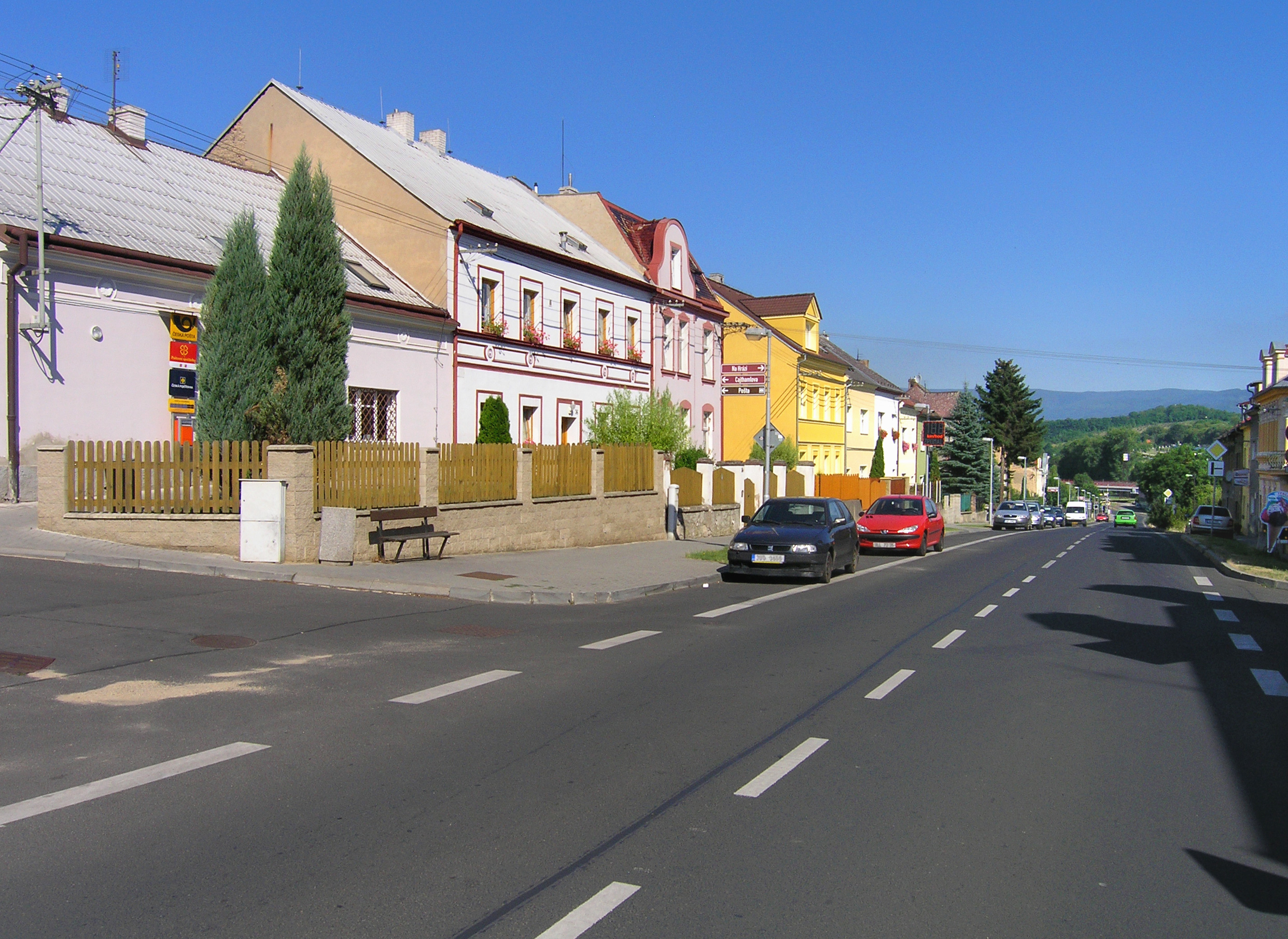 Pražská street in Bystřany village, Czech Republic